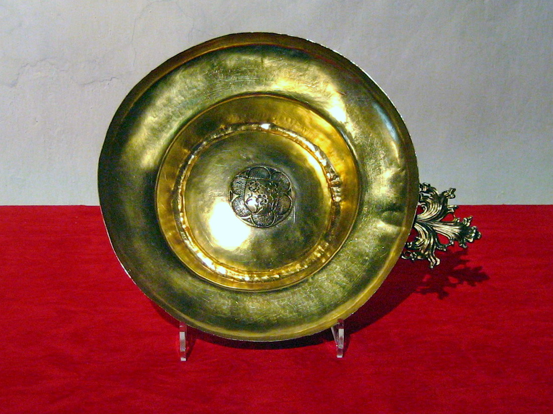 Water cup, probably in property of Duchess Elisabeth von Rapperswil (1300), at Stadtmuseum Rapperswil (SG).